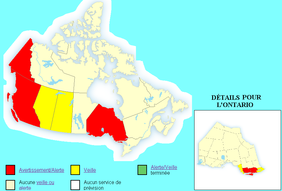 Warning map for Canadian weather severe events